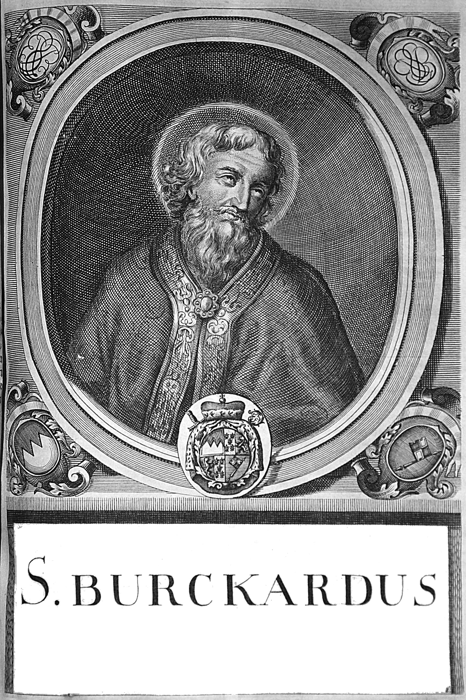 Burchard of Würzburg, Bishop of Würzburg in 741–754.